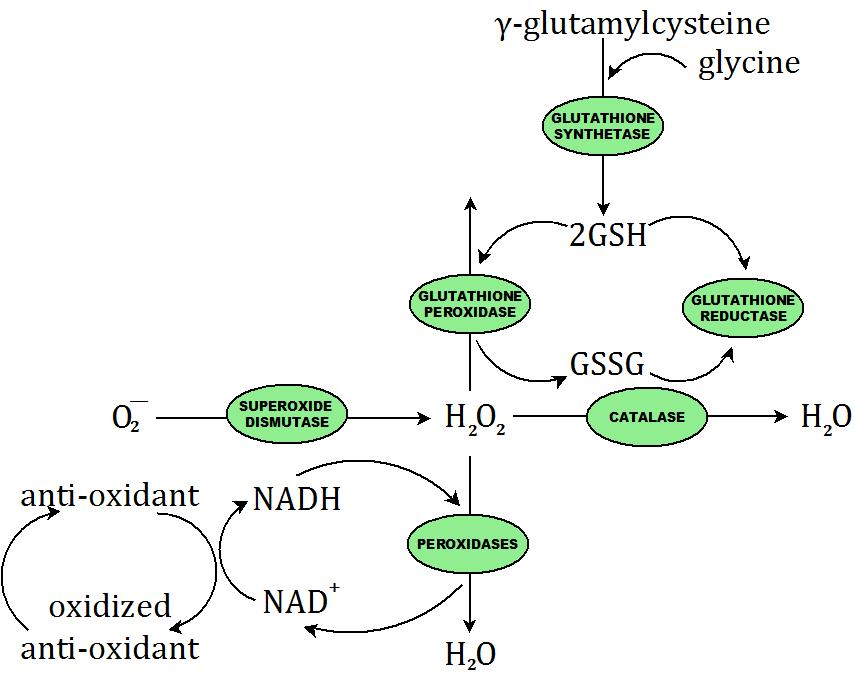 mmmmmm